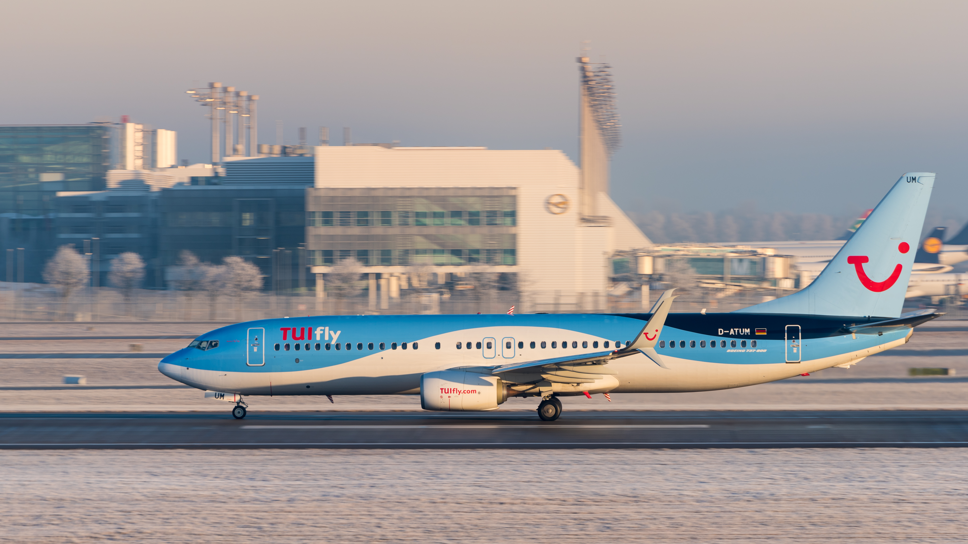 TUIfly Boeing 737-8K5 (reg. D-ATUM, msn 37240) at Munich Airport (IATA: MUC; ICAO: EDDM).